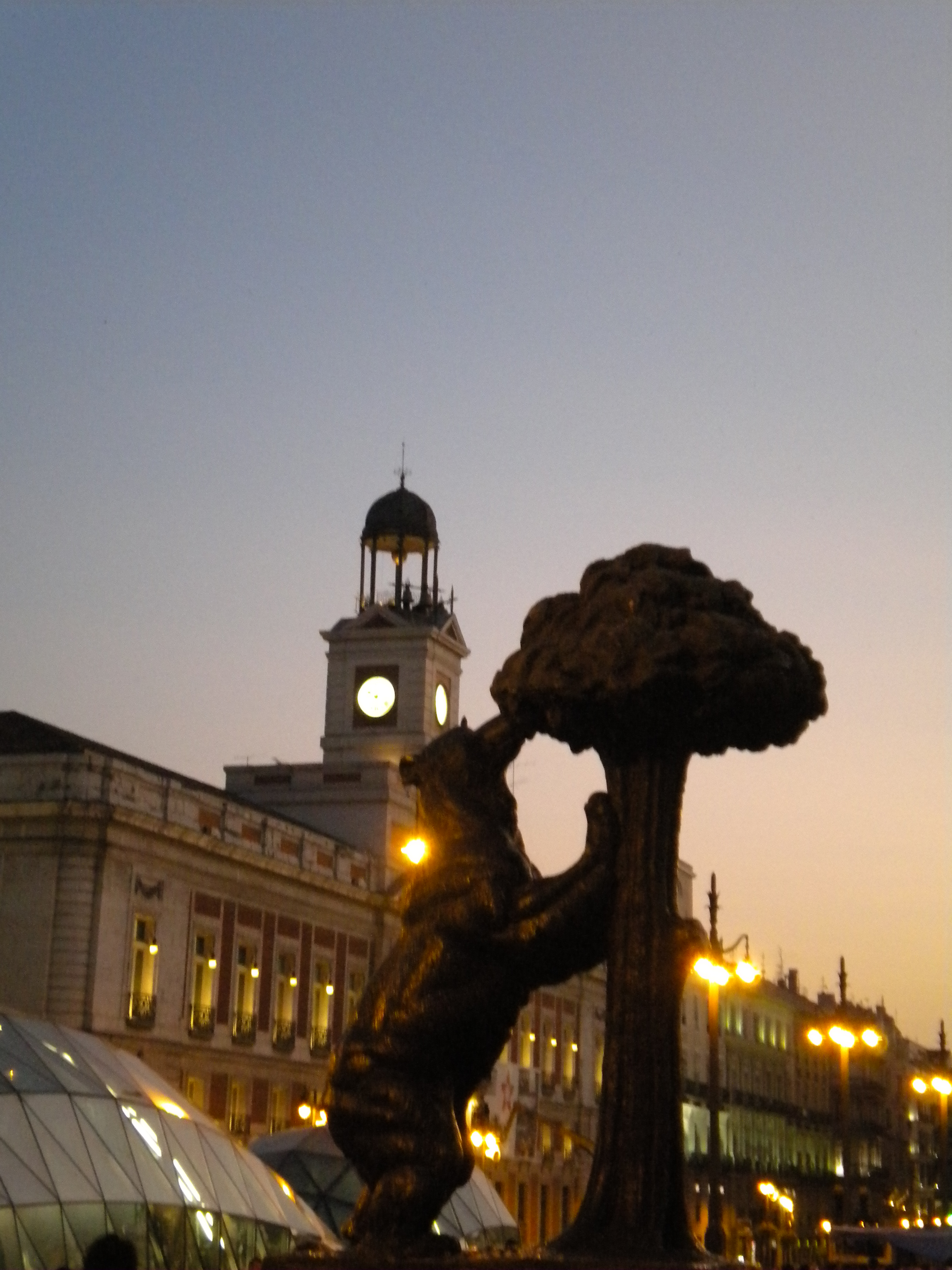 Statue of the bear and the strawberry tree; represents the heraldic arms of Madrid.